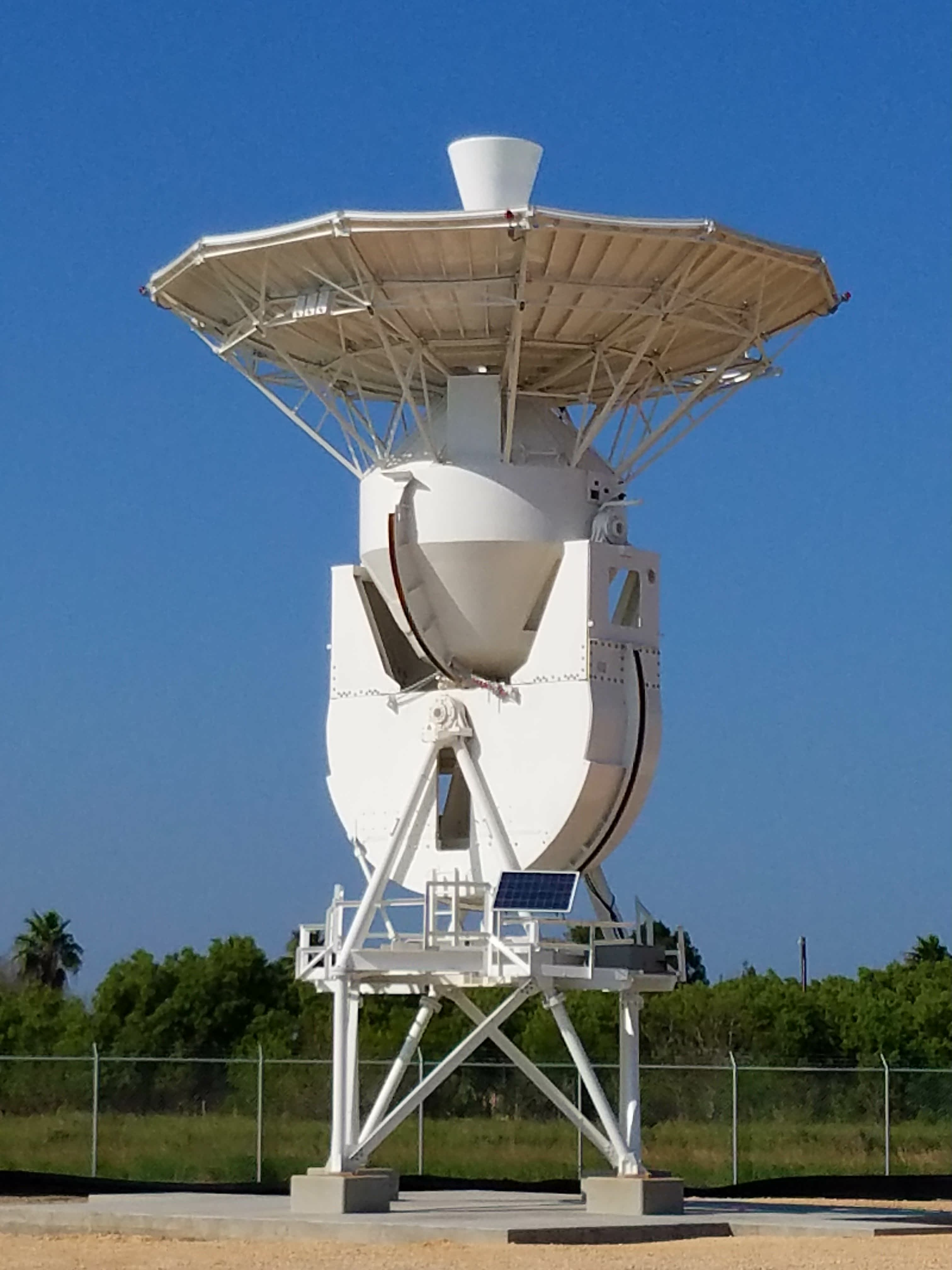 A ground-station satellite tracking antenna taken at Boca Chica, Texas.